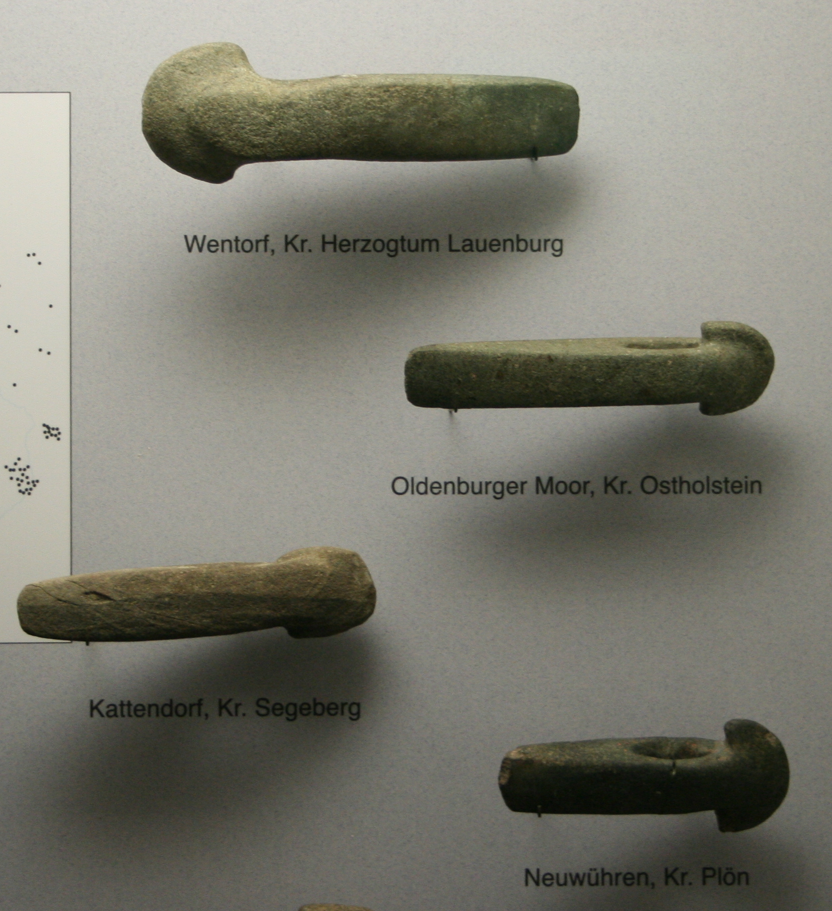 Archaeological state museum Schleswig-Holstein, Gottorf Castle